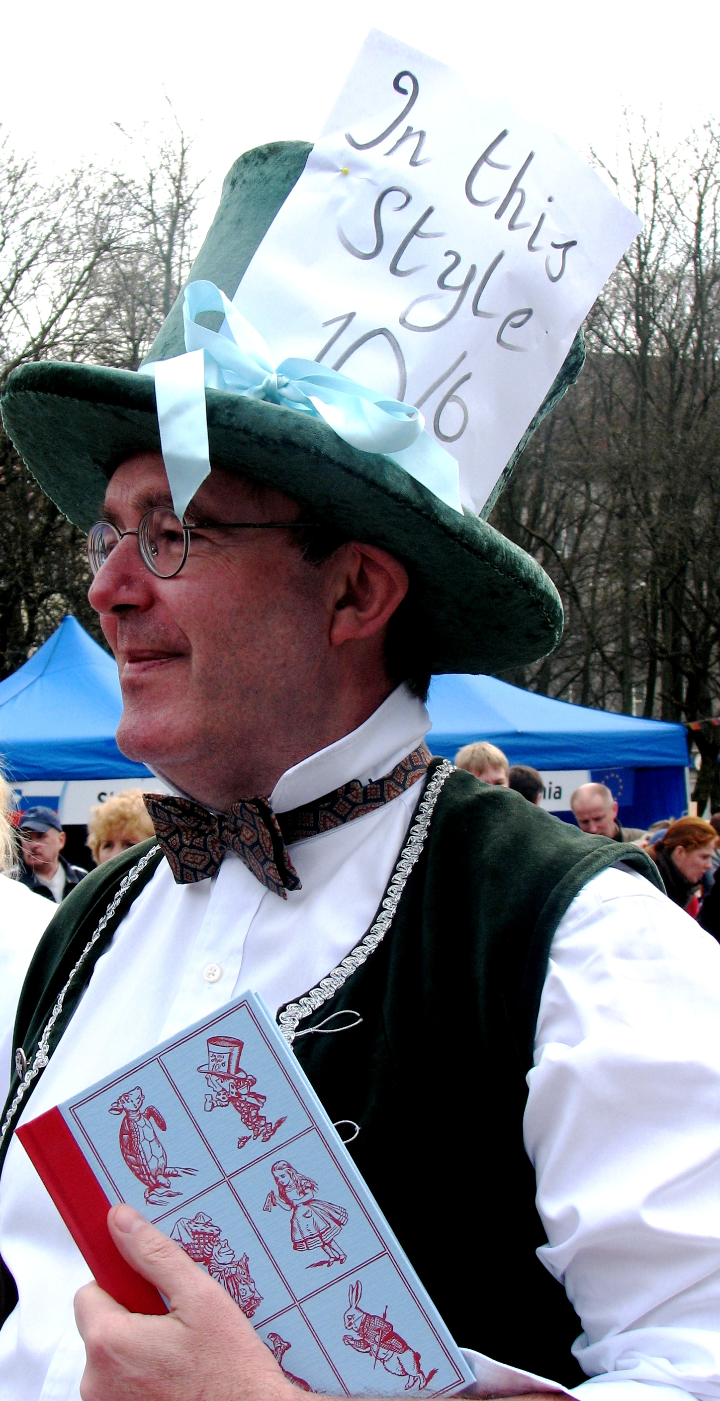 Peter Carter in Europe Day in Tallinn